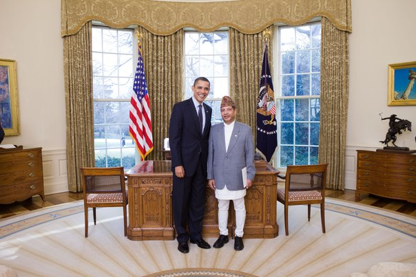 Presenting credentials